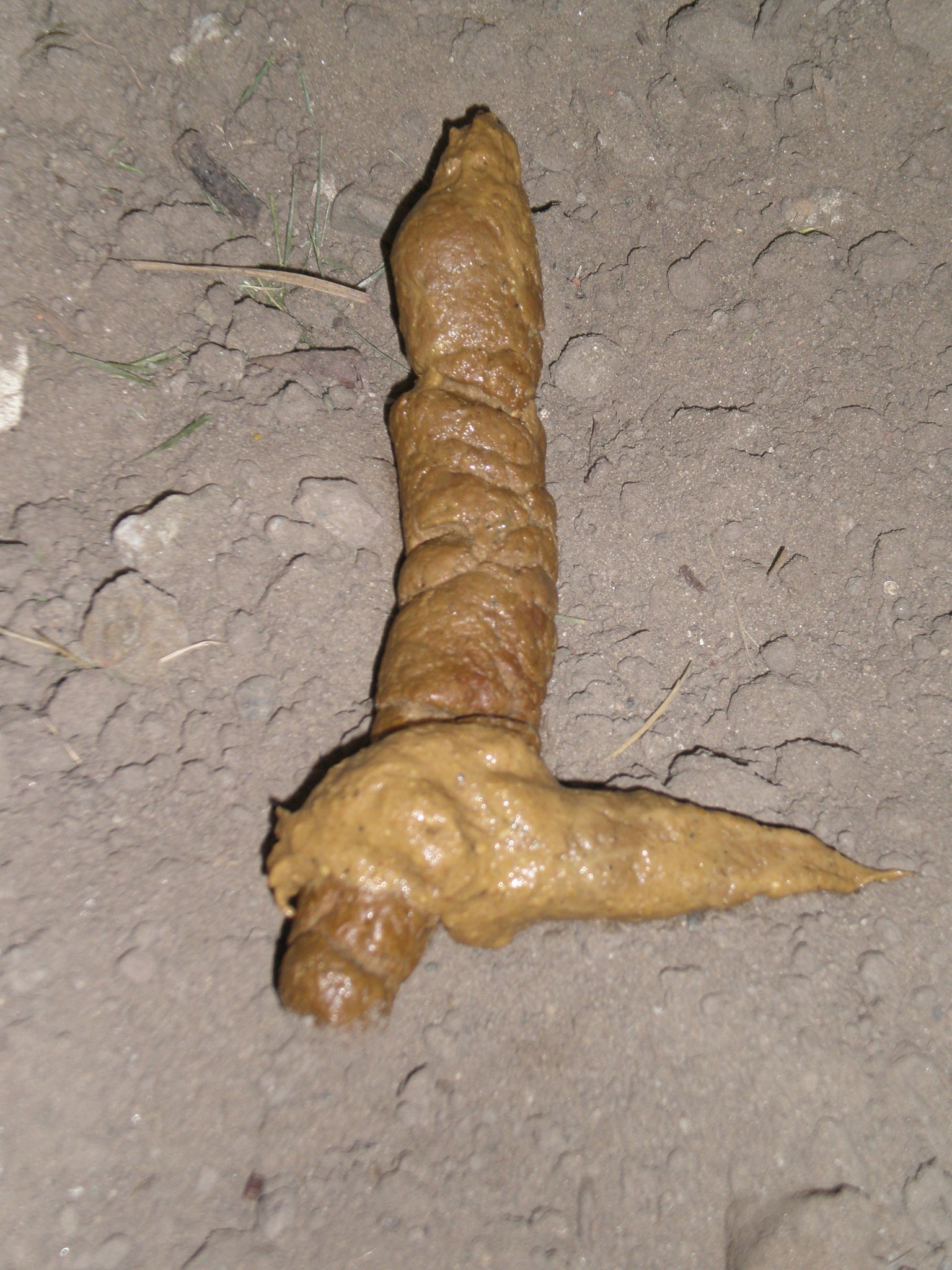 Fresh feces just left by the neighbor's cat in my yard.